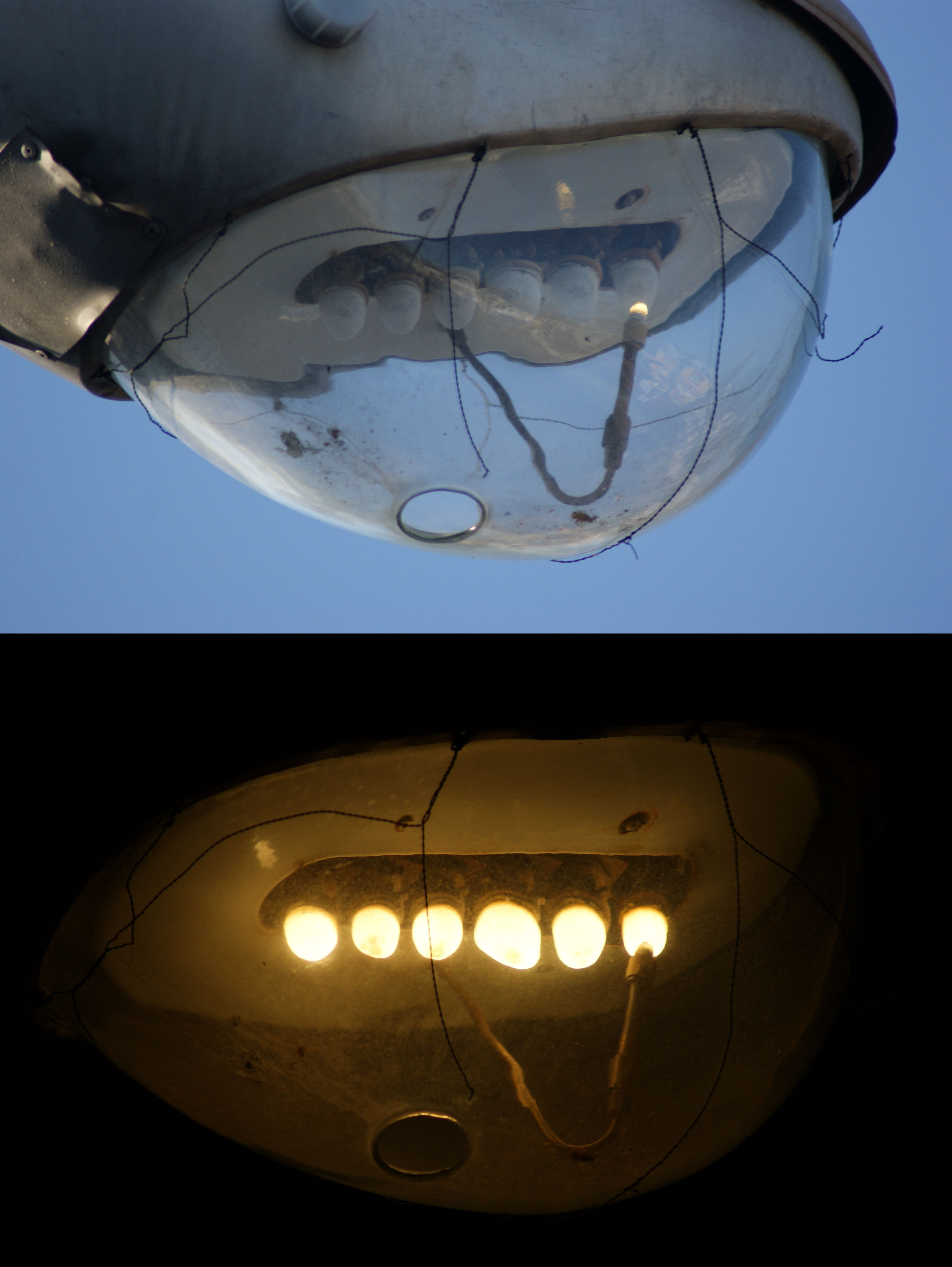 A day and a night picture of a row of gas mantles of a gas street light in Berlin, model Gas BAMAG U13H.